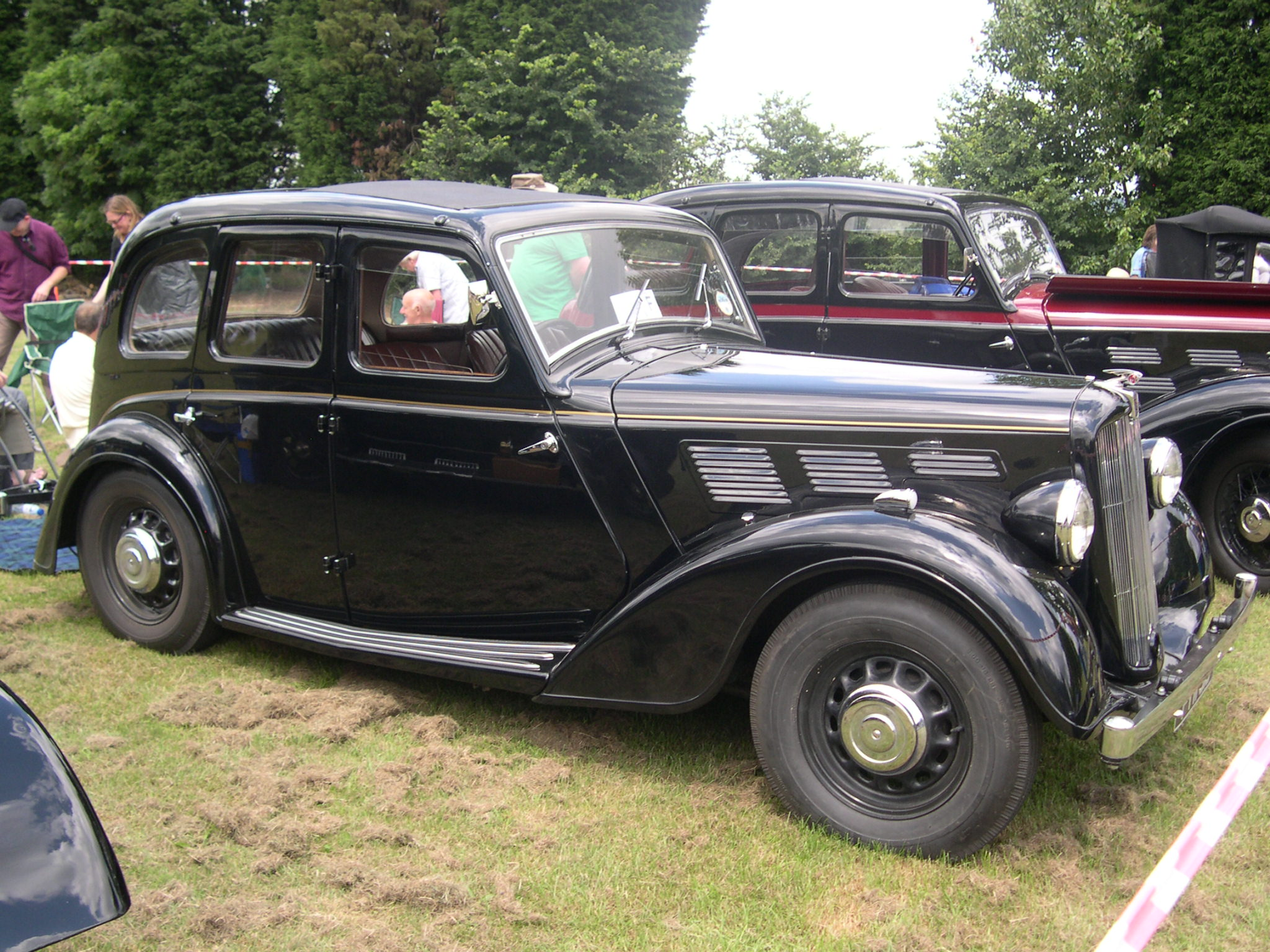 1937 series III Morris Fourteen Six saloon